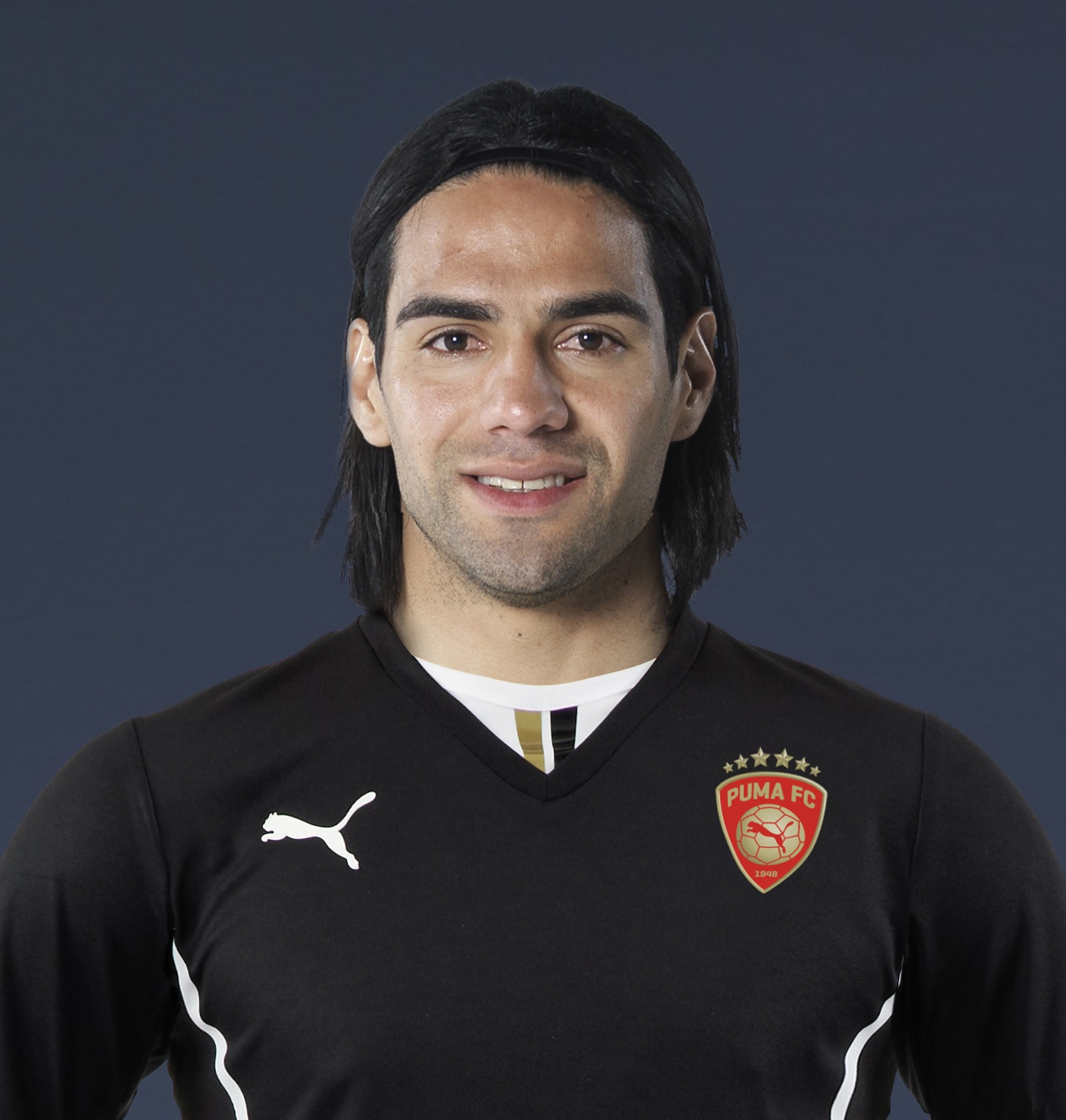 Footballer Radamel Falaco in a promo photo for Puma AG.